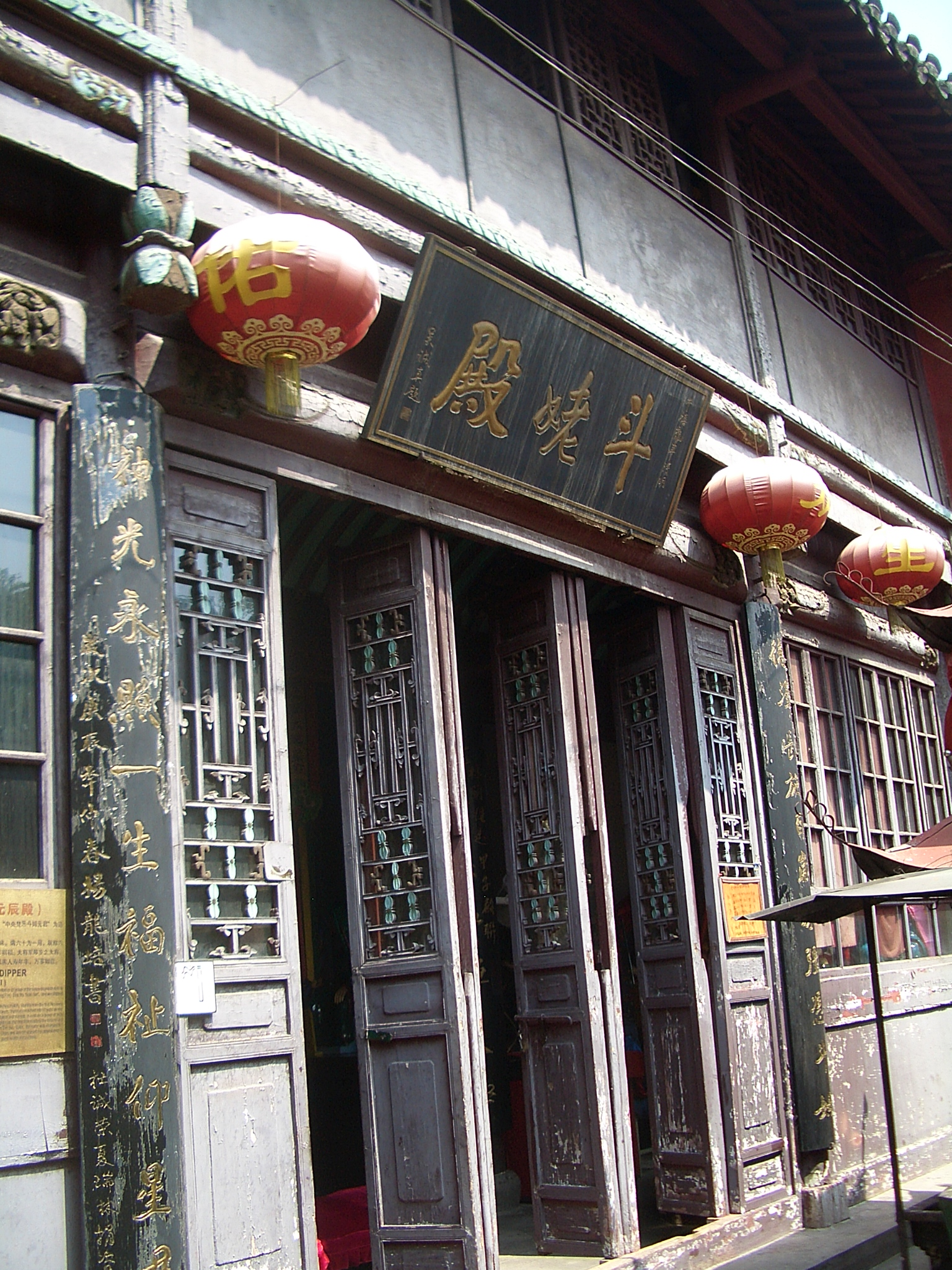 Hall of the Big Dipper (甲子殿, Jiazi Dian) in Changchun Temple, Wuhan.